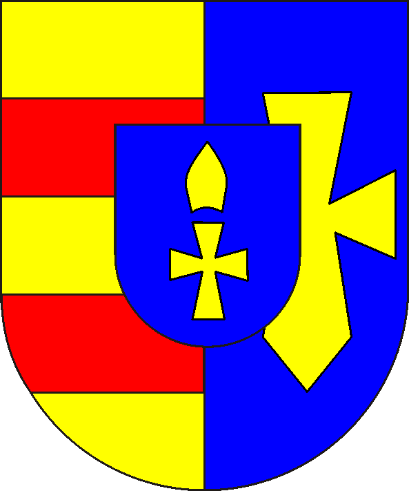 coats of arms of the principality of Lübeck (1829) 1: county of Oldenburg; 2: county of Delmenhorst; heart: principality of Lübeck